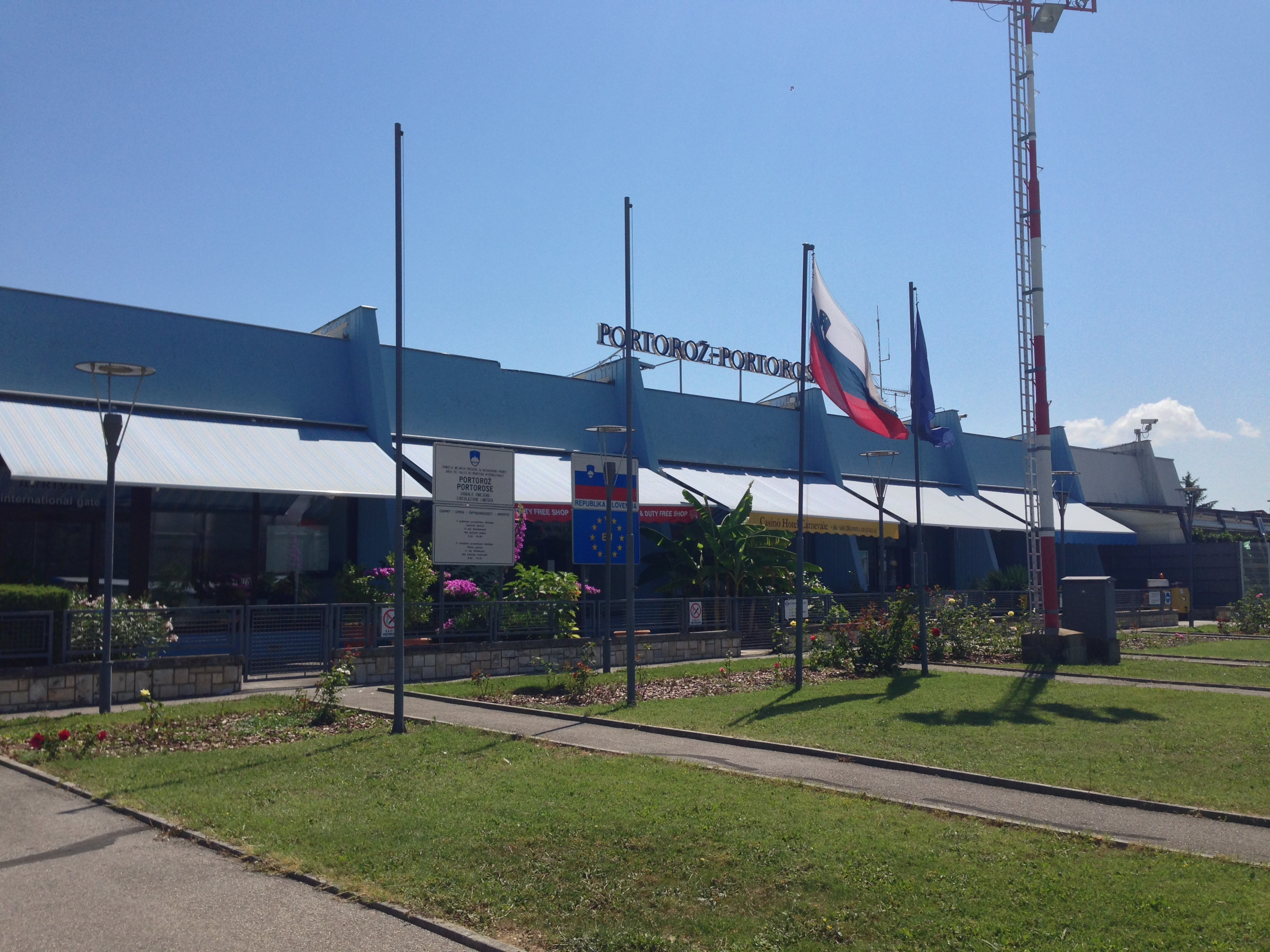 Terminal of Portoroz airfield as seen from the apron